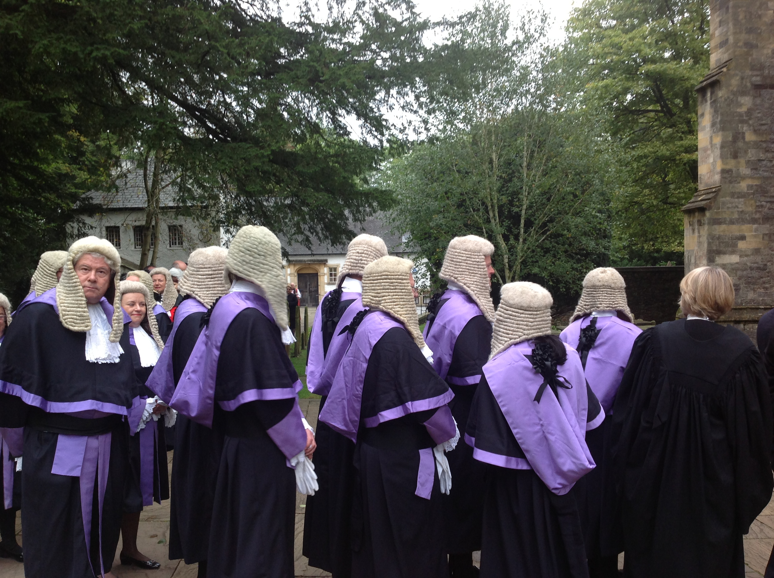 The Legal Service for Wales at Llandaff Cathedral. 13 October 2013